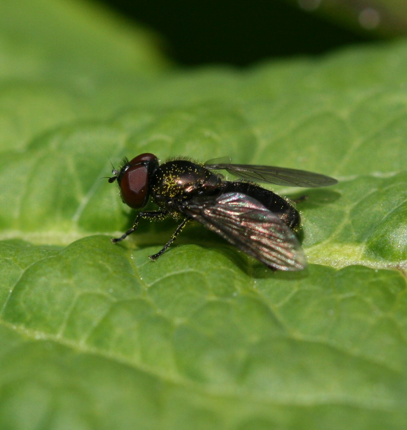 Melanogaster hirtella (male) - a wetland hoverfly.